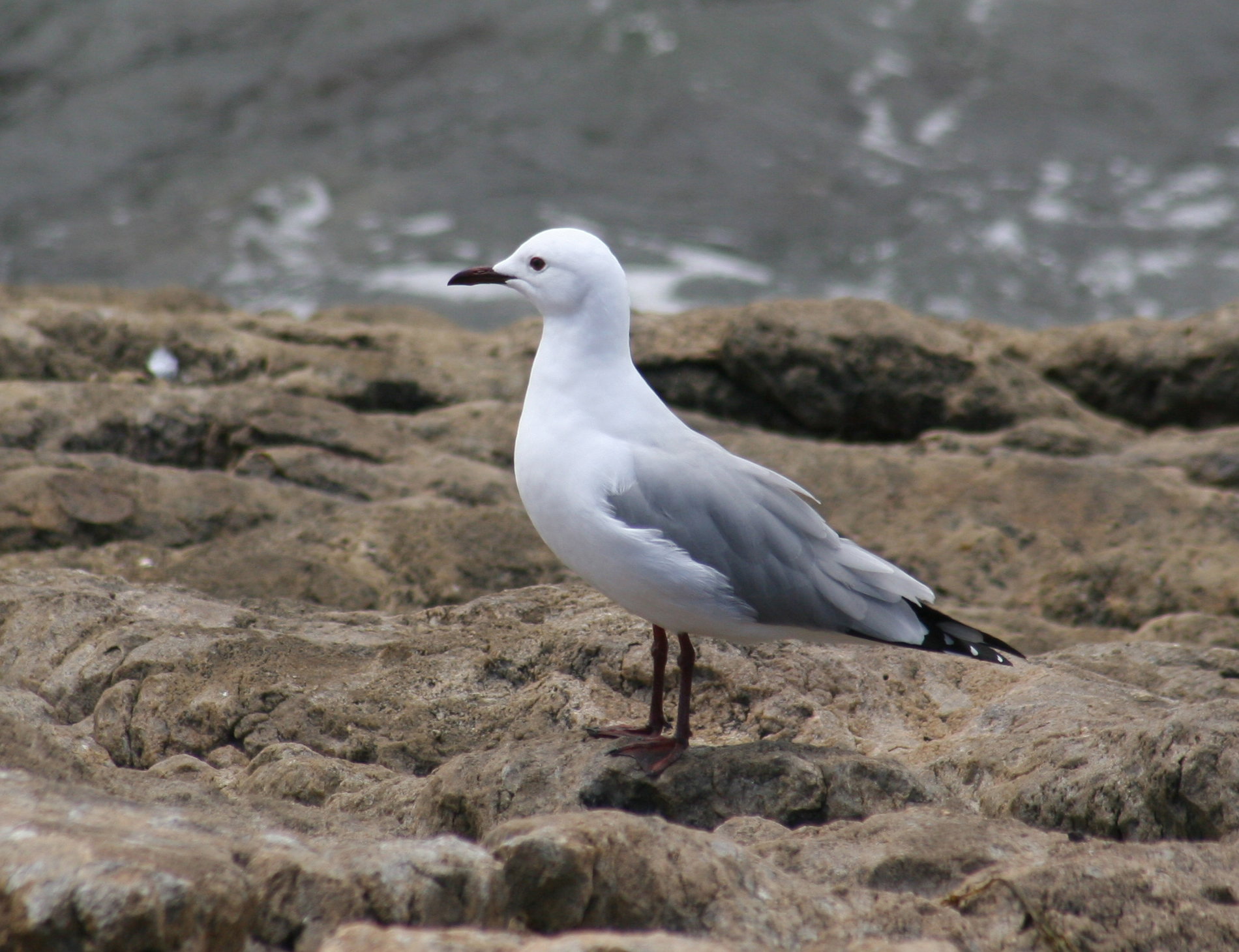 Hartlaub's Gull adult, South Africa.